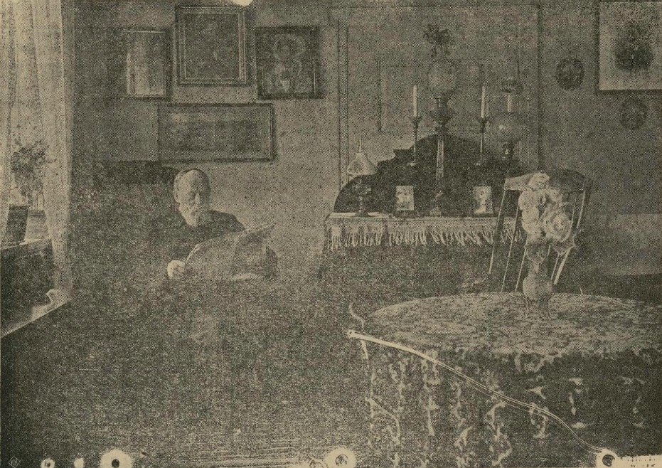 Ole Ibsen, brother of Henrik Ibsen, in his home in Fredriksværn before 1917